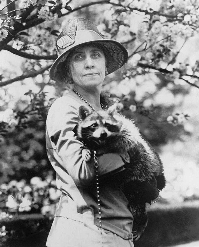 Grace Coolidge with Rebecca the raccoon